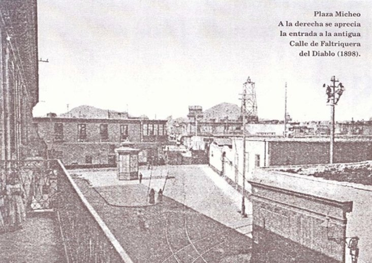 Lima (Perú). Plazuela Micheo. En 1898.